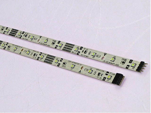 RGB LED strip attached to сomposite epoxy subtrate